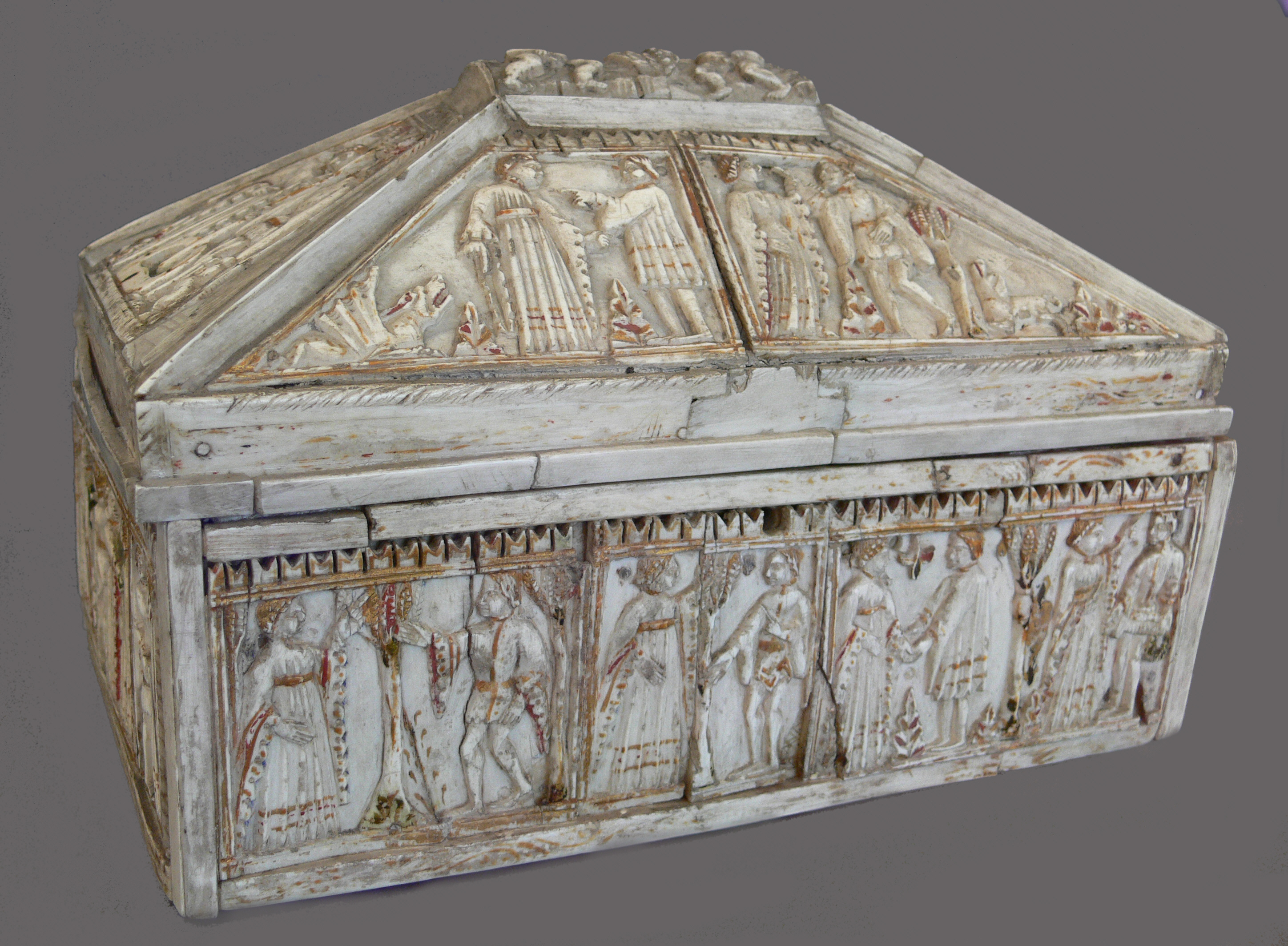 Northern Italy: Jewellery Casket with Couples of Lovers; late 14th century; bone on wood. Skulpturensammlung (inv. no. 689; acquired in 1844 for the Royal „Kunstkammer“ collection), Bode-Museum Berlin.